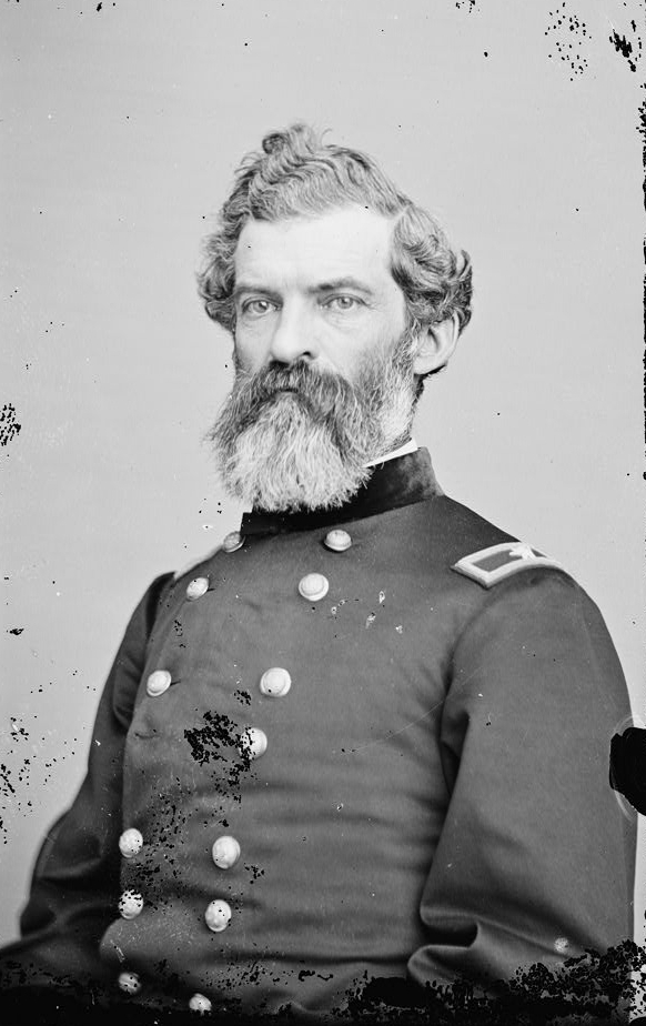 Portrait of Brigadier General John W. Sprague, officer of the Union Army in the American Civil War.